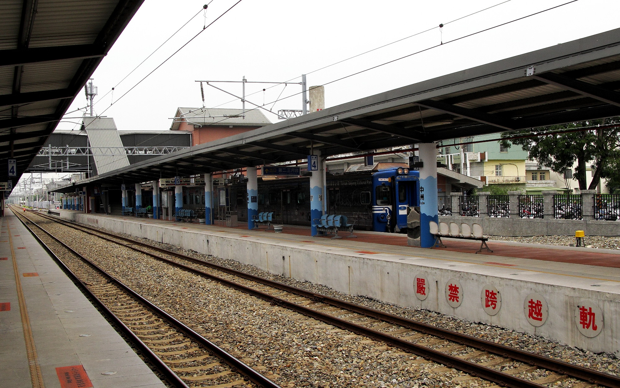 TRA Jhongjhou Station